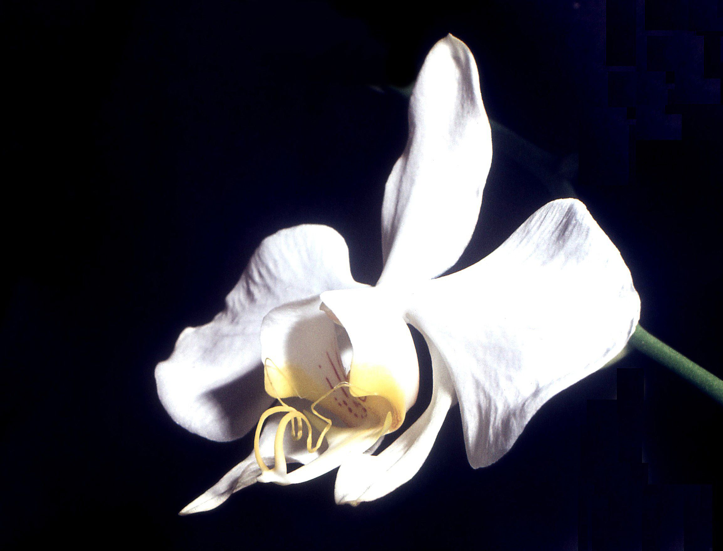 Phalaenopsis amabilis - flower